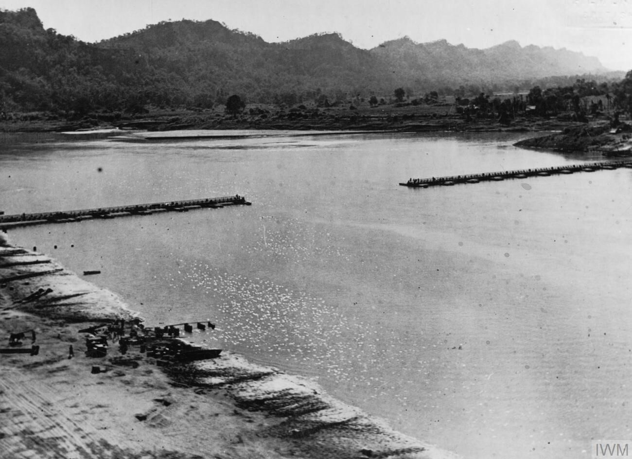 The British Army in Burma 1944 A view of the 1,100ft bailey bridge across the Chindwin River as it nears completion, less than 12 hours after the 14th Army captured Kalewa, 2 December 1944.